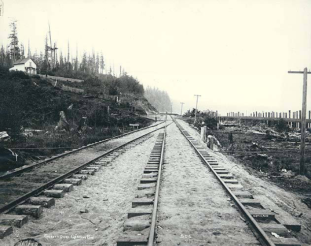 Caption on image: "Everett Port Gardner Bay" Looking south along the Seattle and Montana Railroad tracks, depicts Everett townsite during real estate speculation period . On verso: "Everett. This view was taken from a point opposite the present Pier One looking southward along the Seattle-Montana railroad tracks in October of 1891". Subjects (LCTGM): Railroad tracks--Washington (State)--Everett Subjects (LCSH): Port Gardner (Everett, Wash.)